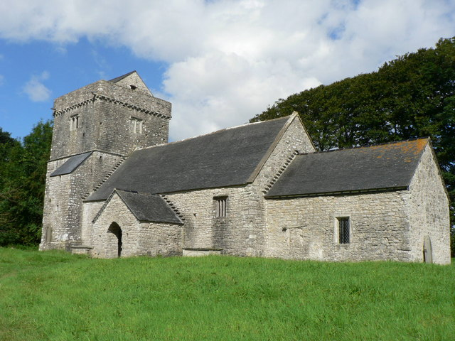 St Brynach's Church, Llanfrynach near Cowbridge A 12th century church that, other than restoration of the tower, remains largely as it was when it served the village of Penllyn. Still it has no gas, electricity or water.